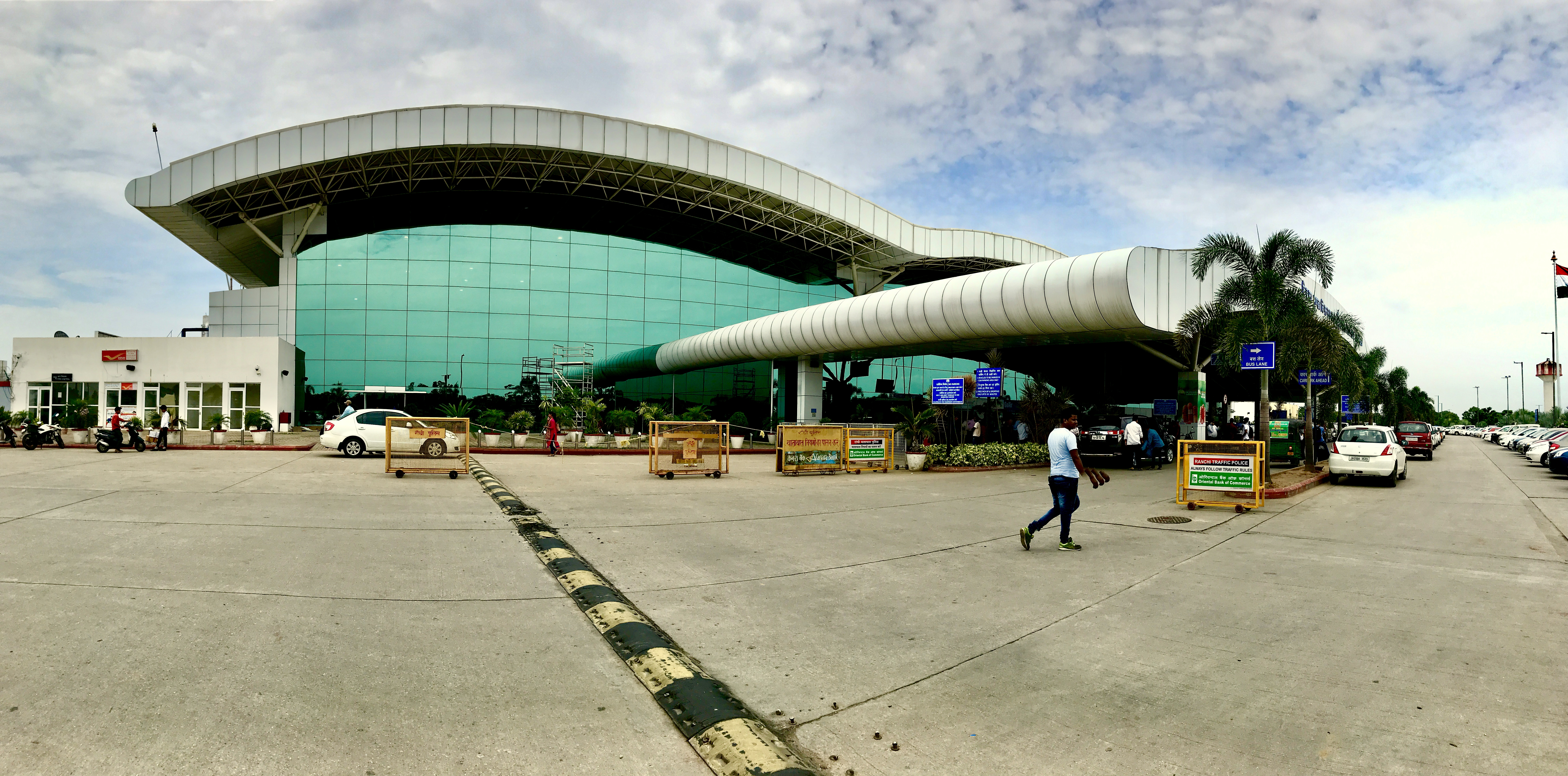 Panorama of Birsa Munda Airport and it's cantilever structure